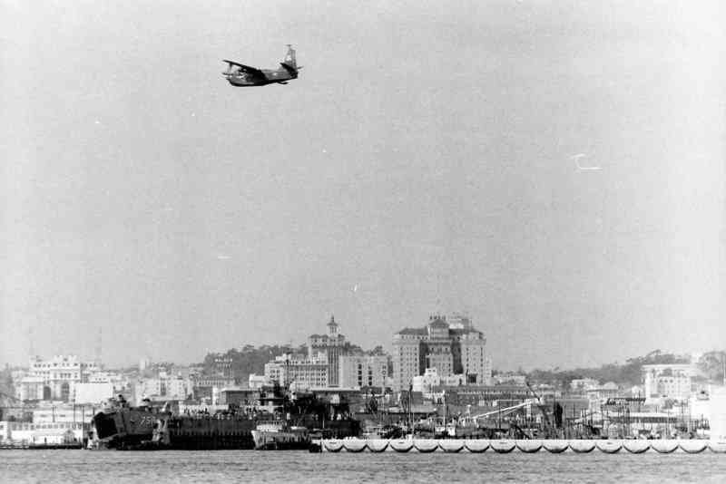 USS Duval County (LST-758) in drydock at San Diego, September 1960. Note the Martin P5M "Marlin" overhead. Official US Navy photo taken from